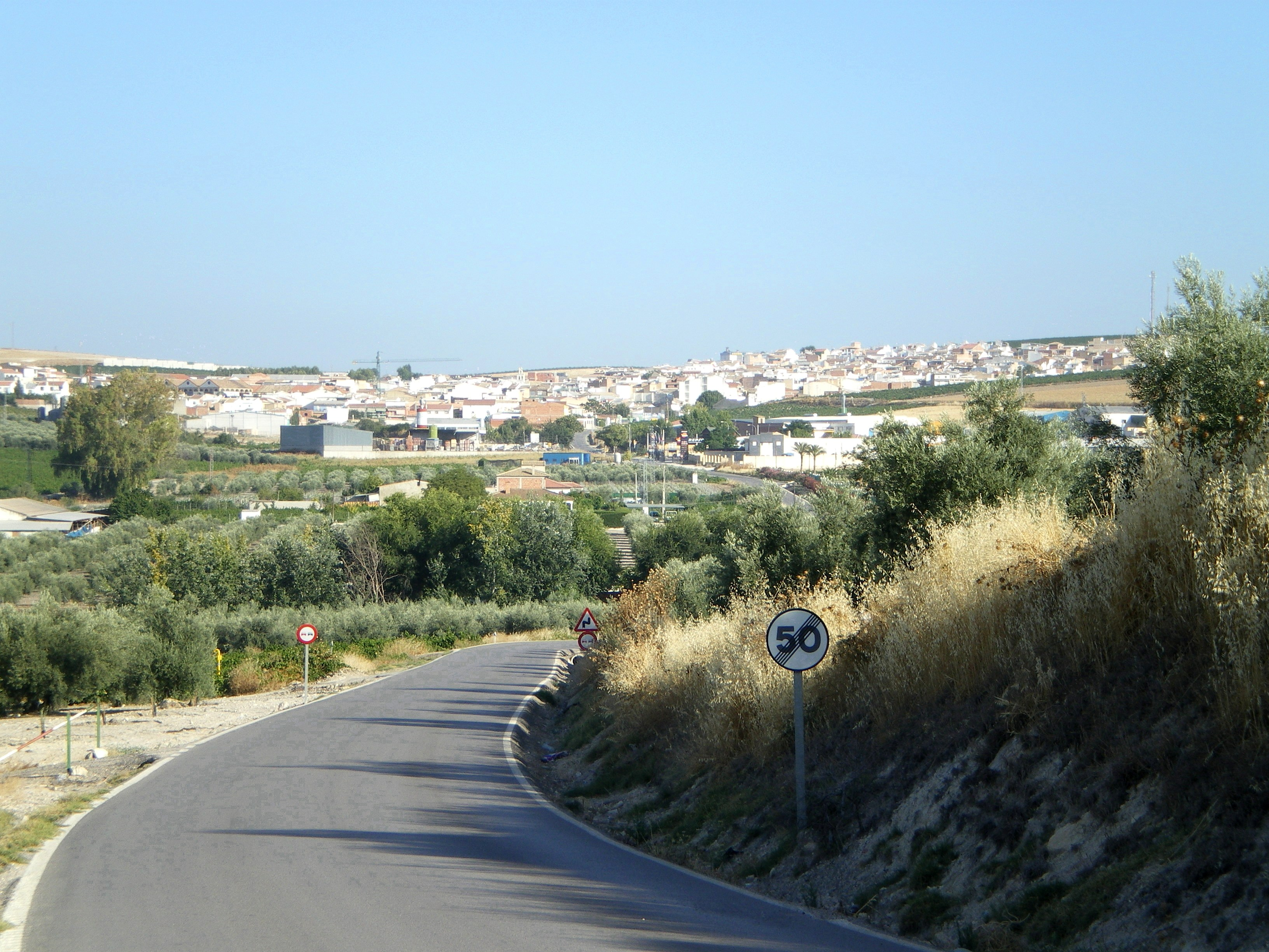 Wide view on Moriles town, in the province of Córdoba (Spain)